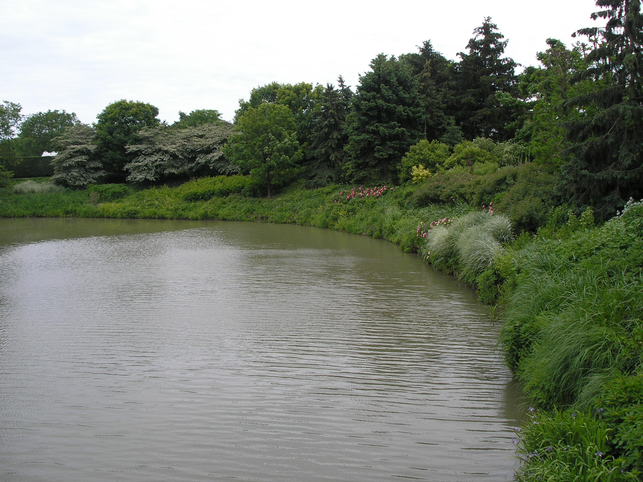 Inside the Chicago Botanic Garden; one of many different lakes